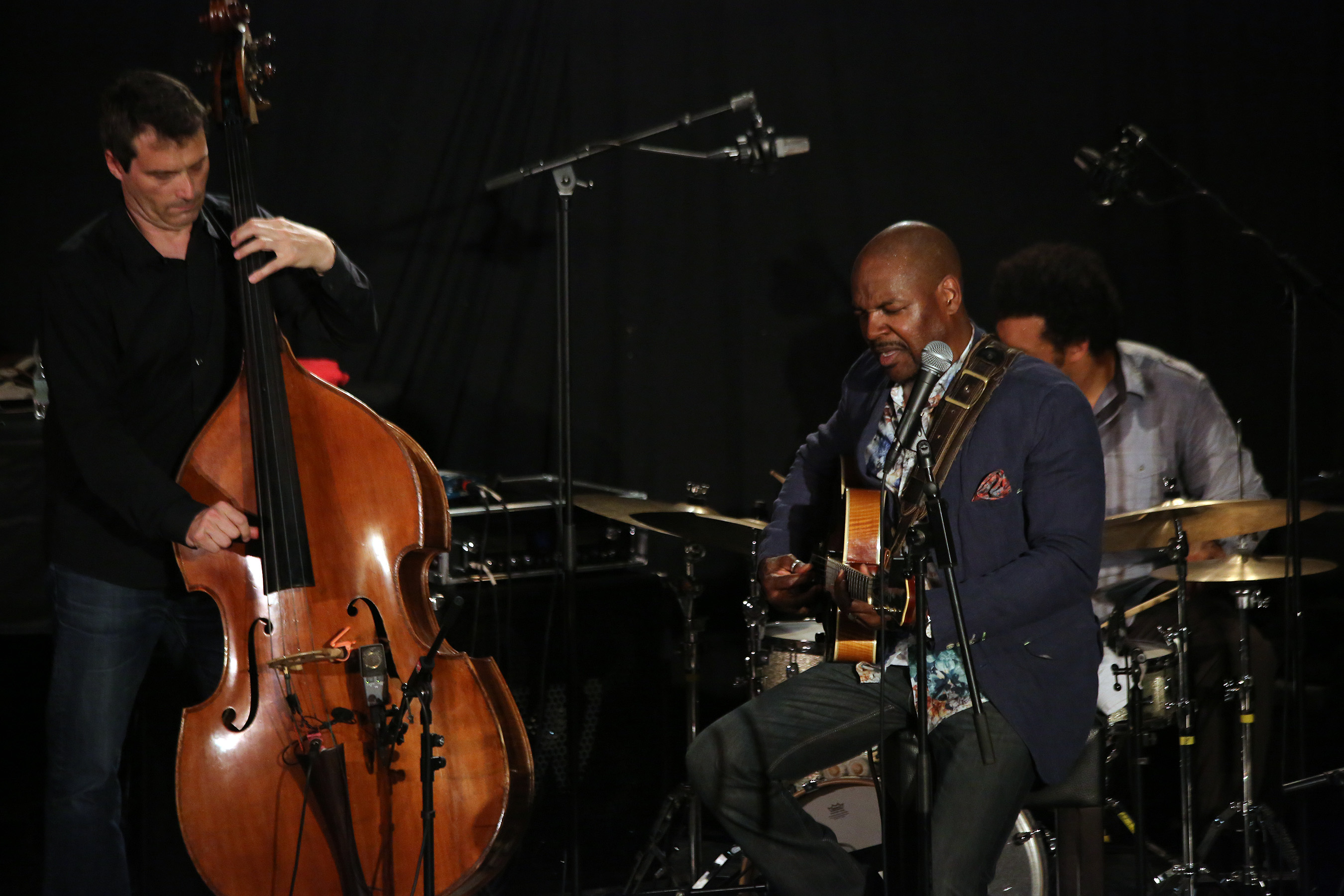 Bobby Broom (git), Dennis Carroll (b), Makaye McCraven (dr) - INNtöne Jazzfestival (Diersbach, Upper Austria)